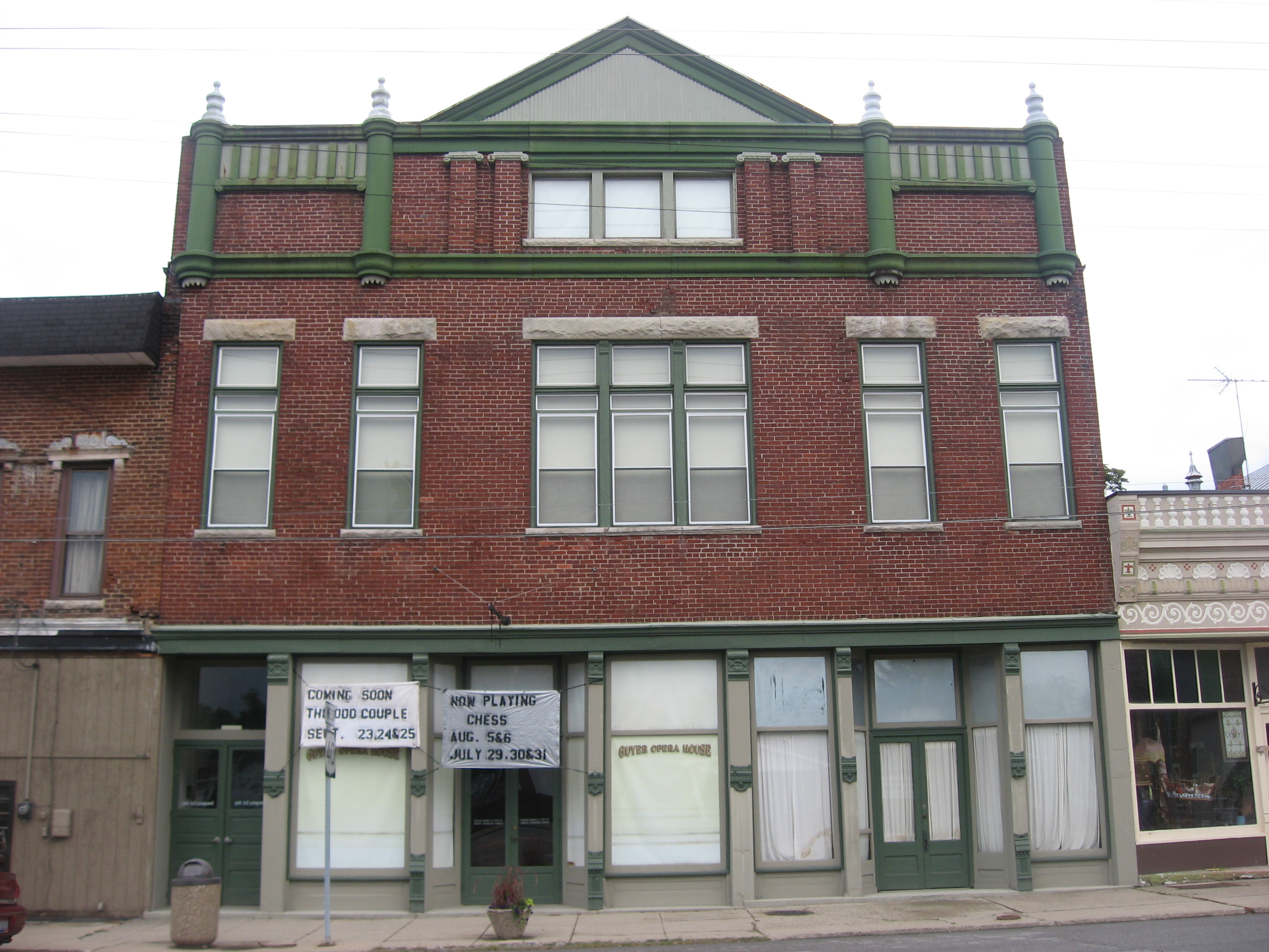 Front of the Guyer Opera House, located along W. Main Street (U.S. Route 40) in Lewisville, Indiana, United States. Built in 1902, it is listed on the National Register of Historic Places.